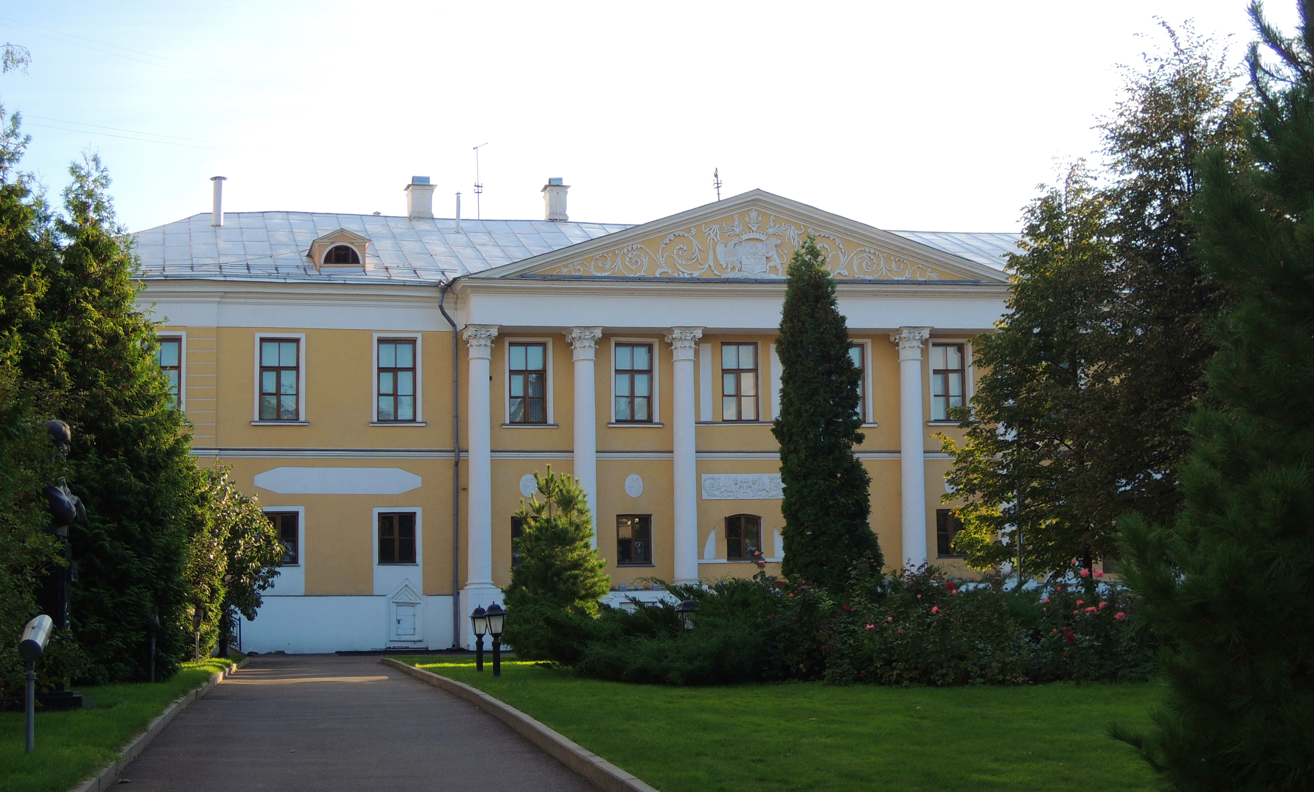 Roerich family Museum and Institute